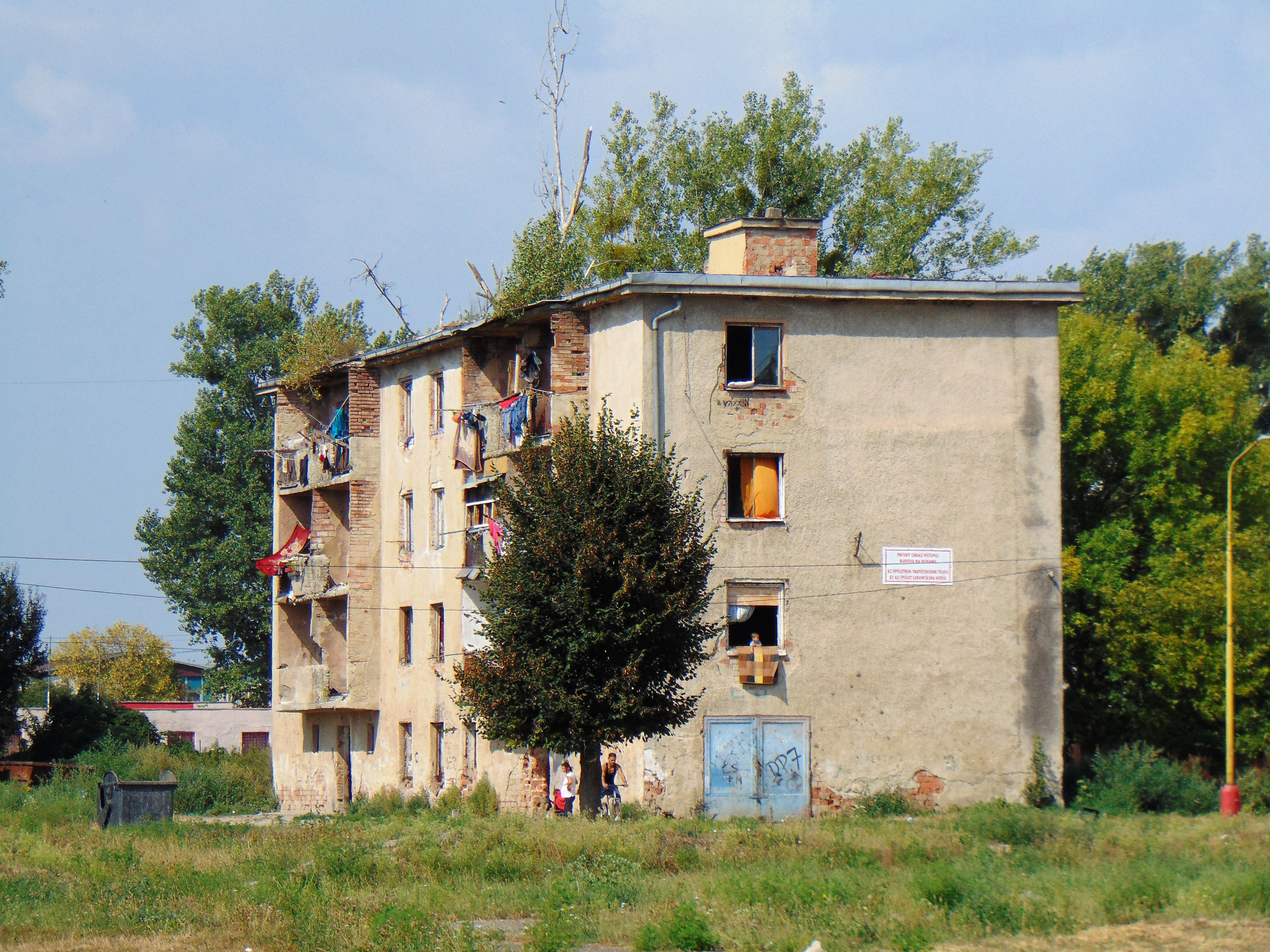 Roma ghetto in Čierna nad Tisou, eastern Slovakia.